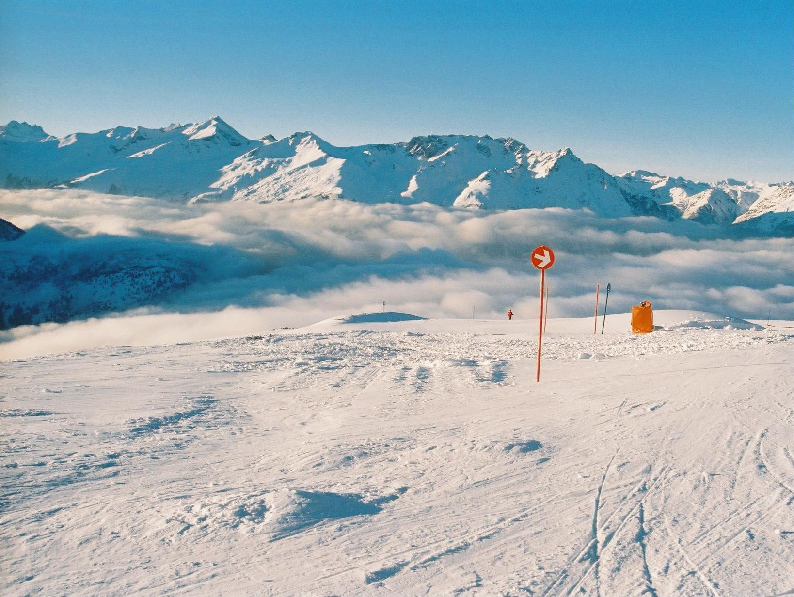 Nauders - Bergkastel near Mitterkopf, Tyrol. View towards Switzerland: Piz Mundin (3146), Piz Malmurainza (3038), Muttler (3293). Stammerspitz (3254), Piz Mottana (2928), Grossmutzkopf (1987) and Piz Lad (2808)